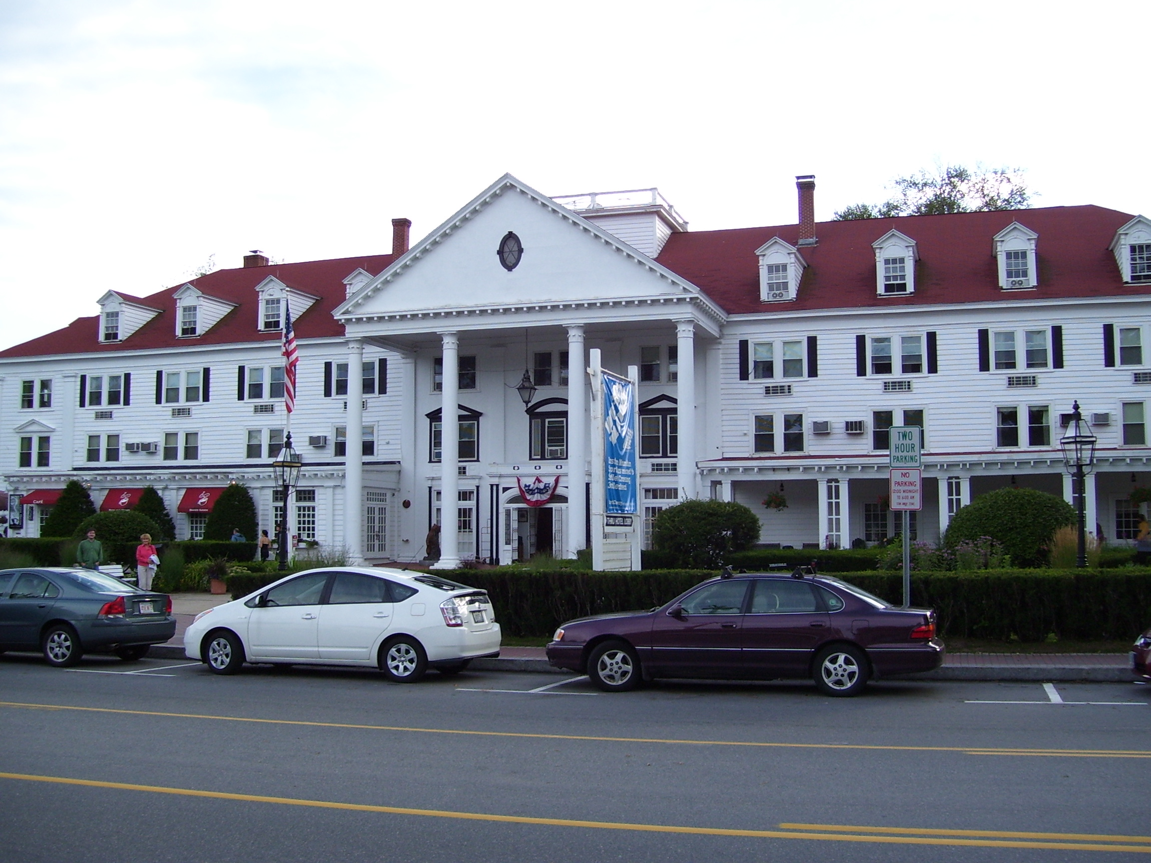 My 2008 photo of Eastern Slope Inn in North Conway, New Hampshire.